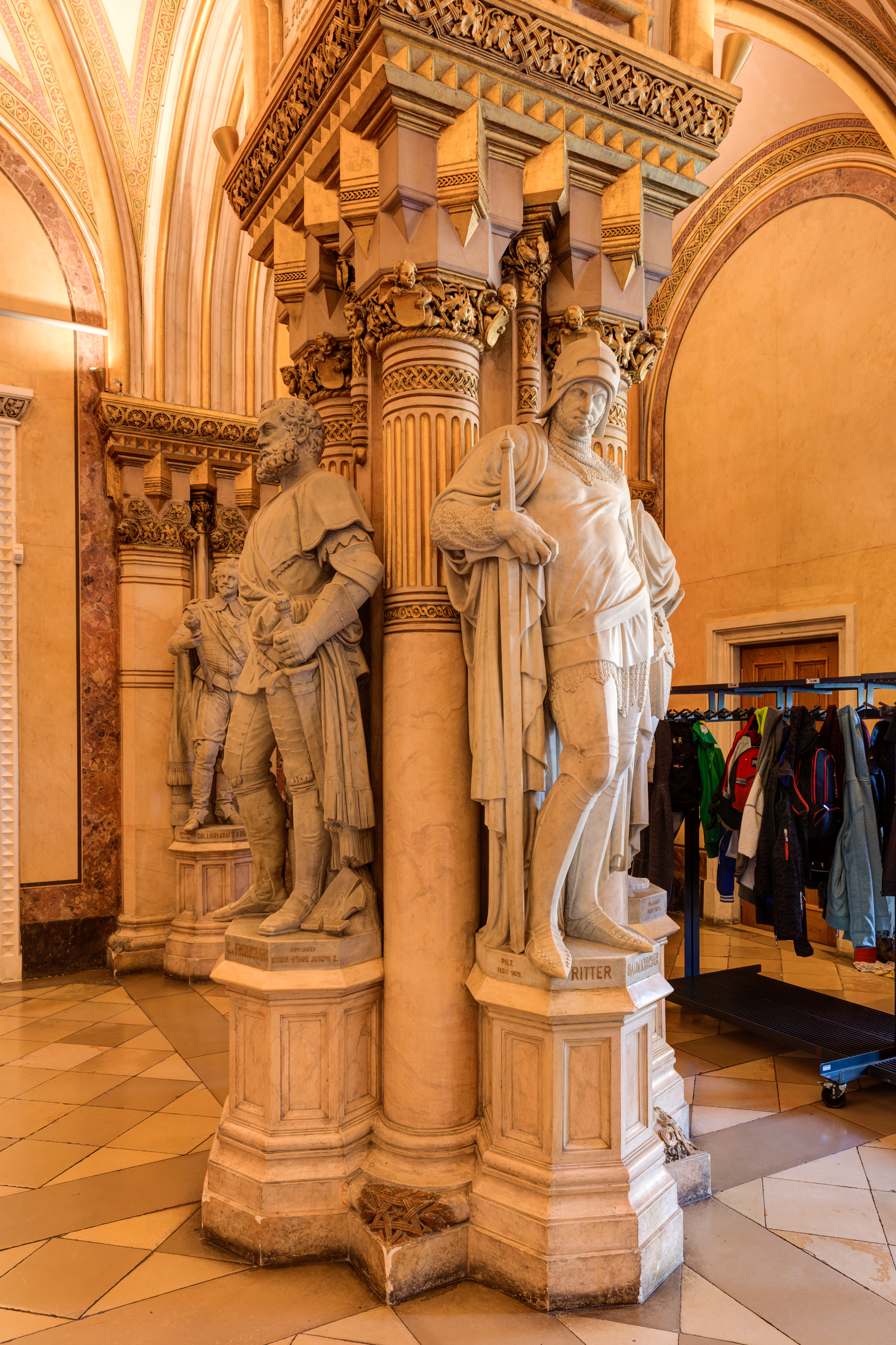 Georg von Frundsberg and Andreas Baumkircher in the "Field marshal"-hall of the Museum of Military History - Military History Institute in Vienna (German: Heeresgeschichtliche Museum – Militärhistorische Institut), is the leading museum of the Austrian Armed Forces, which documents the history of Austrian military affairs through a wide range of exhibits.